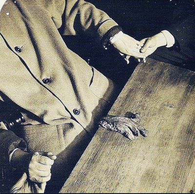 Photograph taken in the early 1920s of Mina Crandons mediumship. The photographs reveals her fake "spirit" hand.